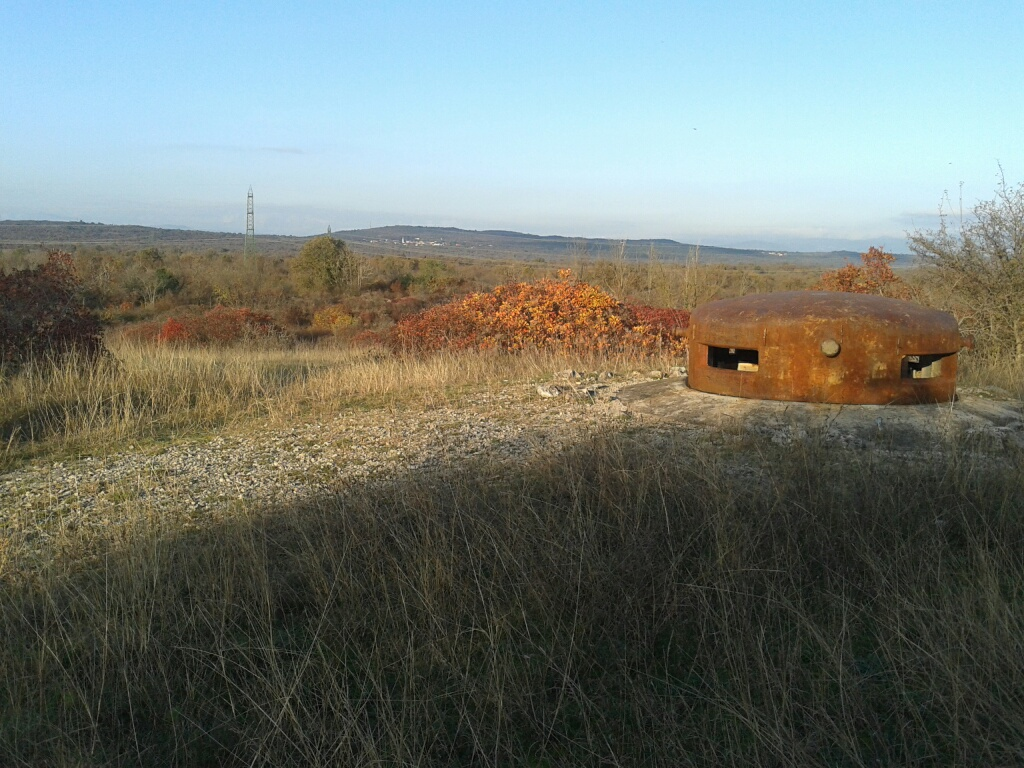 Managed by 33° Fanteria d’arresto "Ardenza", the disused bunker is one of a 5 string remaining as ruins of Cold War